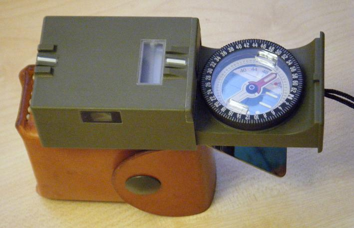 "Sitometer 85" by Kern, Switzerland. Introduced as mortar level compass in the Swiss Armed Forces in 1985.